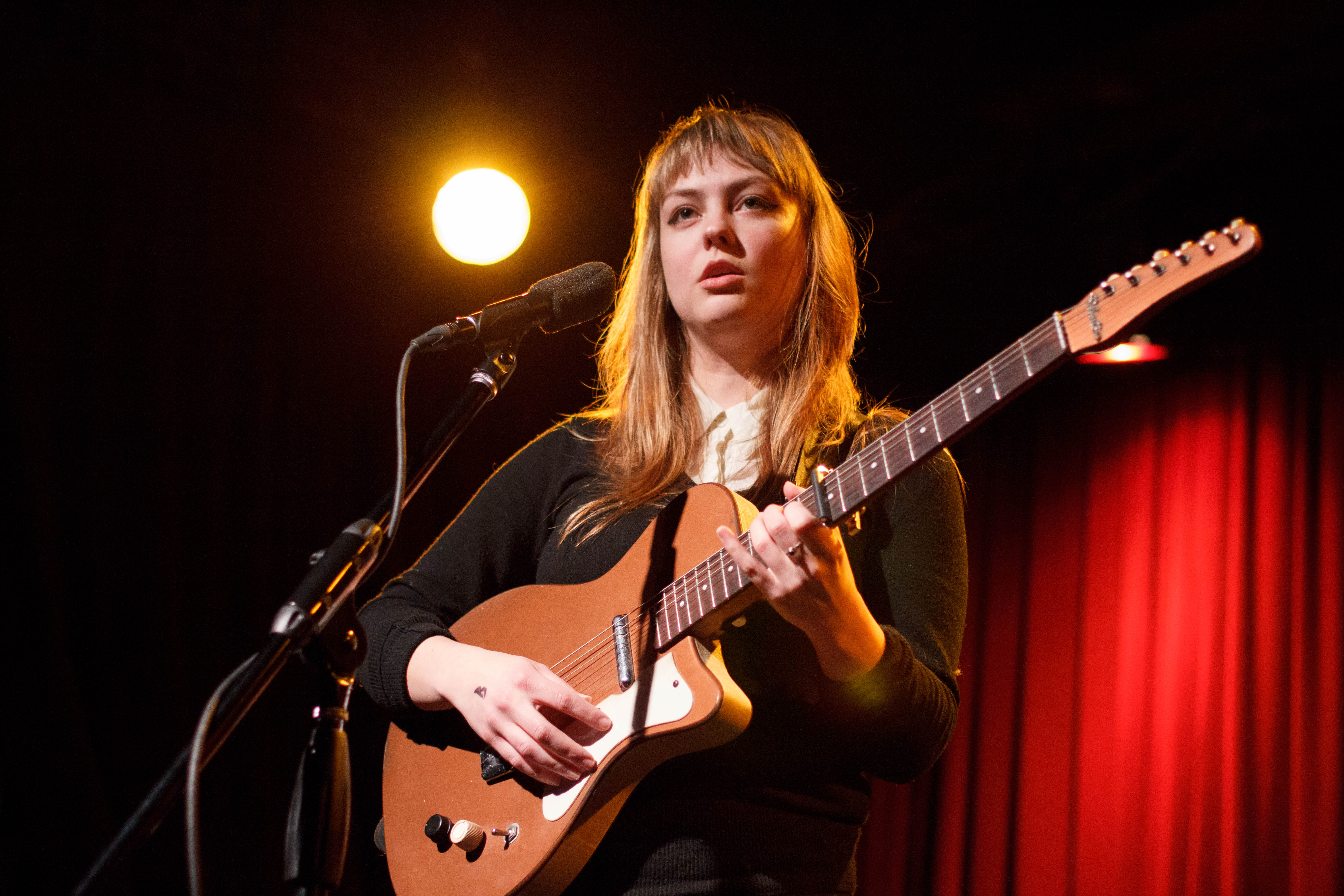 Angel Olsen playing at Off Broadway on February 7, 2013